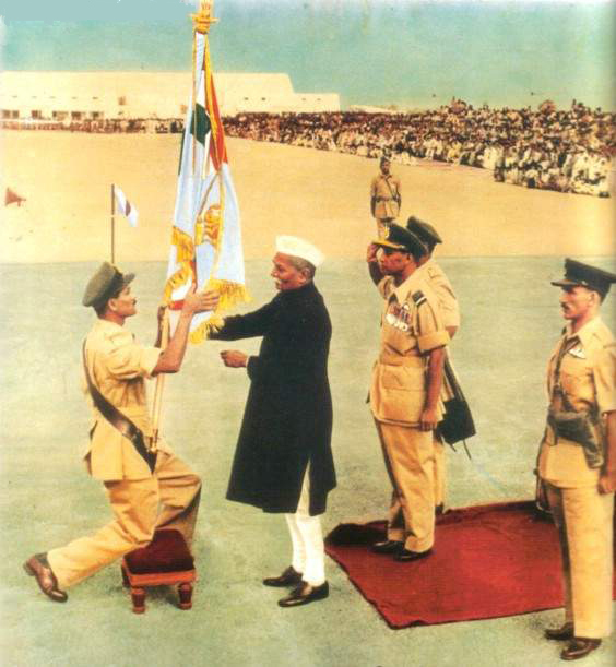 President Rajendra Prasad presenting the colours 1954